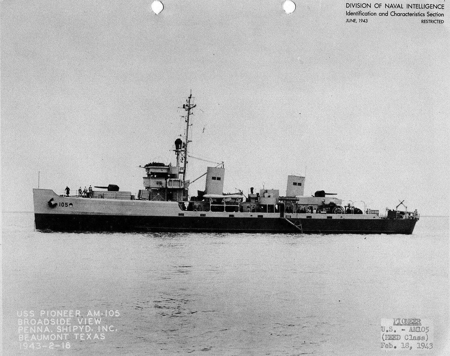 18 February 1943 Pennsylvania Shipyards, Inc., Beaumont, TX U.S. Navy photo